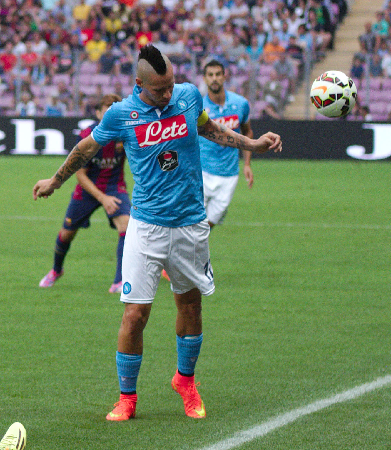 Marek Hamšík, FC Barcelona vs SSC Napoli, 2014.